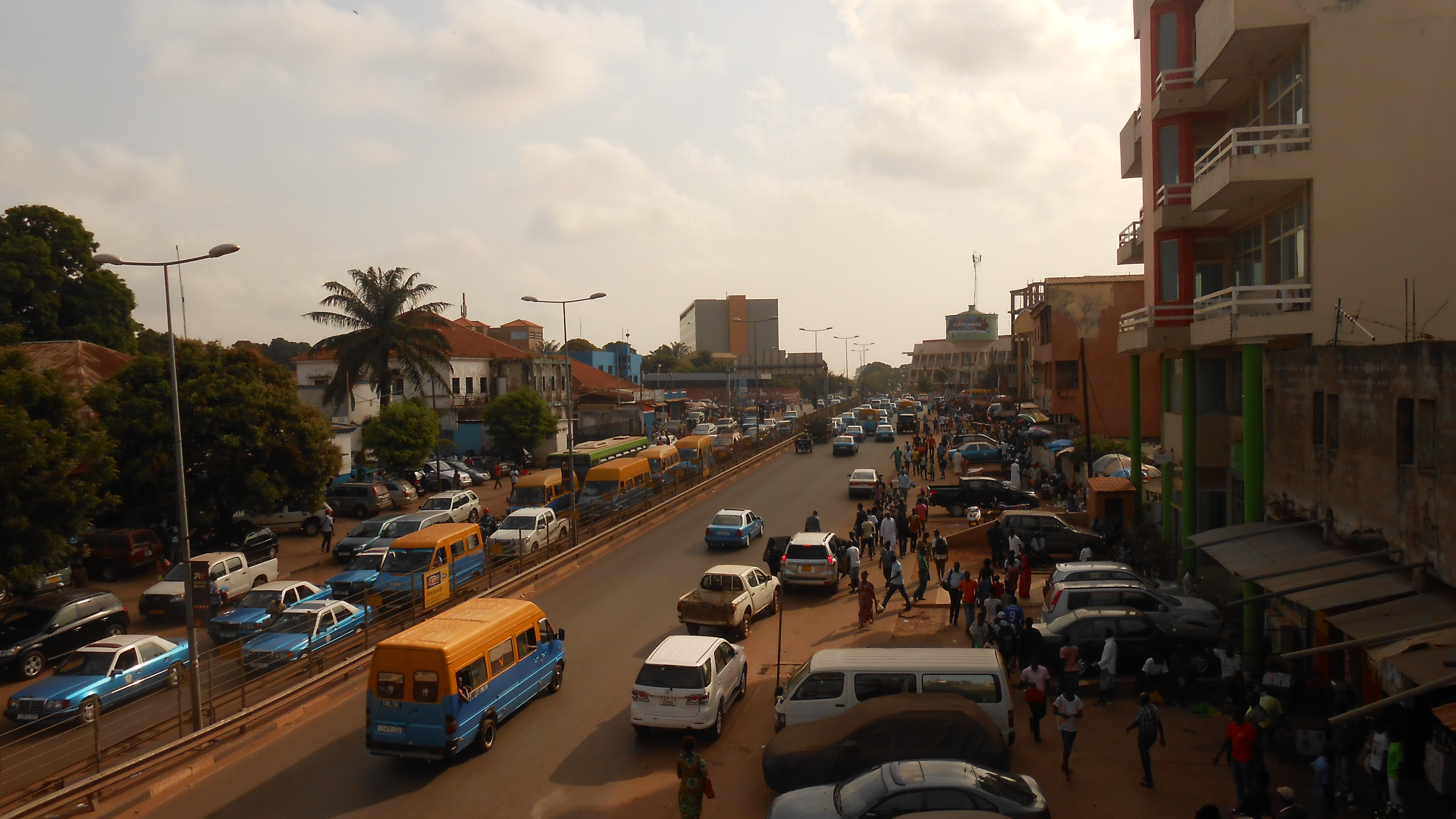 The central Avenida dos Combatentes da Liberdade da Pátria avenue in the capital Bissau, with the Mercado de Bandim market hall building starting on the right.